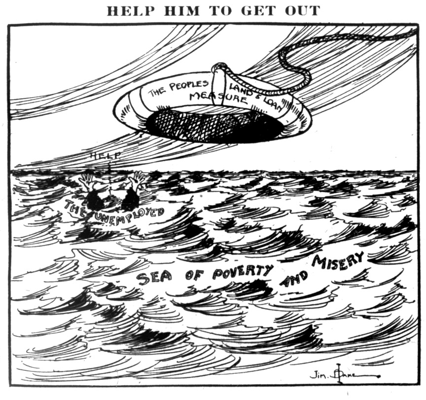 "Help Him to Get Out", Portland Labor Press 7/1/1916.